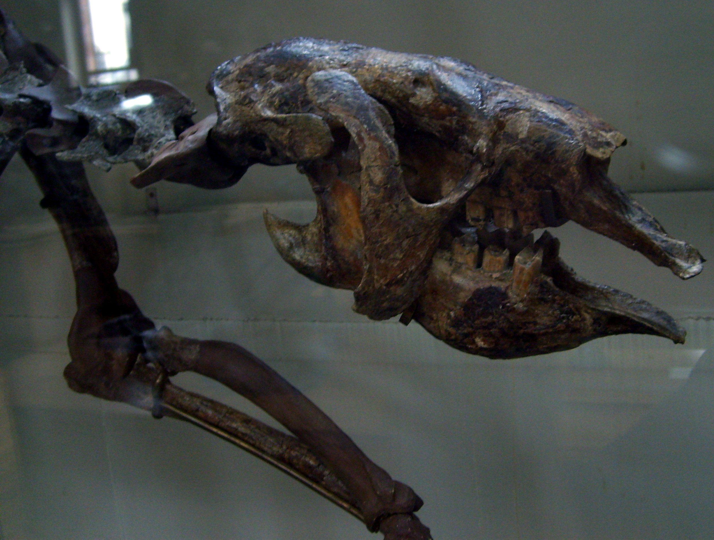 Thalassocnus natans skeleton, Muséum national d'histoire naturelle, Paris.